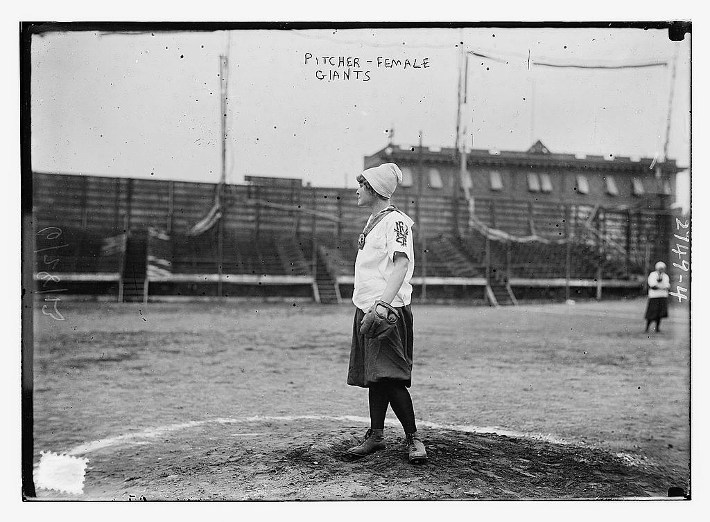 Bain News Service,, publisher. [New York Female Giants (baseball)] [1913] 1 negative : glass ; 5 x 7 in. or smaller. Notes: Original data provided by the Bain News Service on the negatives or caption cards: Pitcher - Female Giants. Corrected title and date based on research by the Pictorial History Committee, Society for American Baseball Research, 2006. Forms part of: George Grantham Bain Collection (Library of Congress). Format: Glass negatives. Repository: Library of Congress, Prints and Photographs Division, Washington, D.C. 20540 USA, General information about the Bain Collection is available at Higher resolution image is available (Persistent URL): Call Number: LC-B2- 2749-4